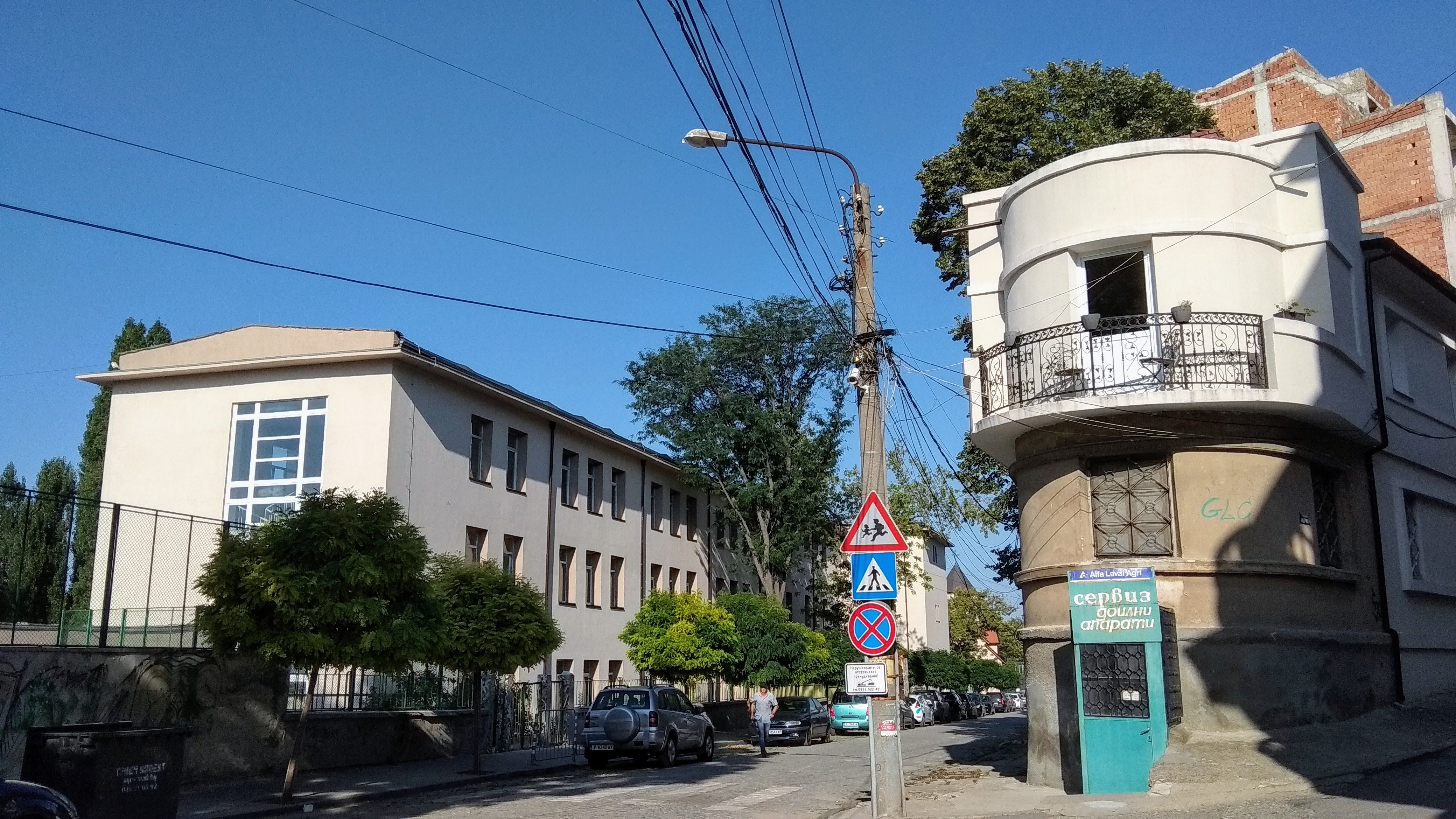 Former Jewish elementry school in Yambol